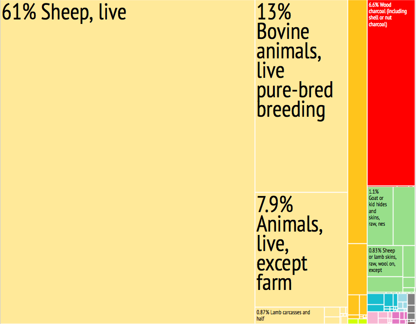 Somalia Export Treemap from MIT Harvard Economic Complexity Observatory